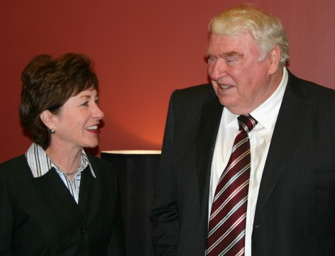 U.S. Senator Susan Collins, who co-chairs the Senate Diabetes Caucus, was joined recently by football legend and Coach John Madden, and a bipartisan, bicameral group of her colleagues in a press event calling for Congress to take action to avoid 35 percent cuts in crucial diabetes research.